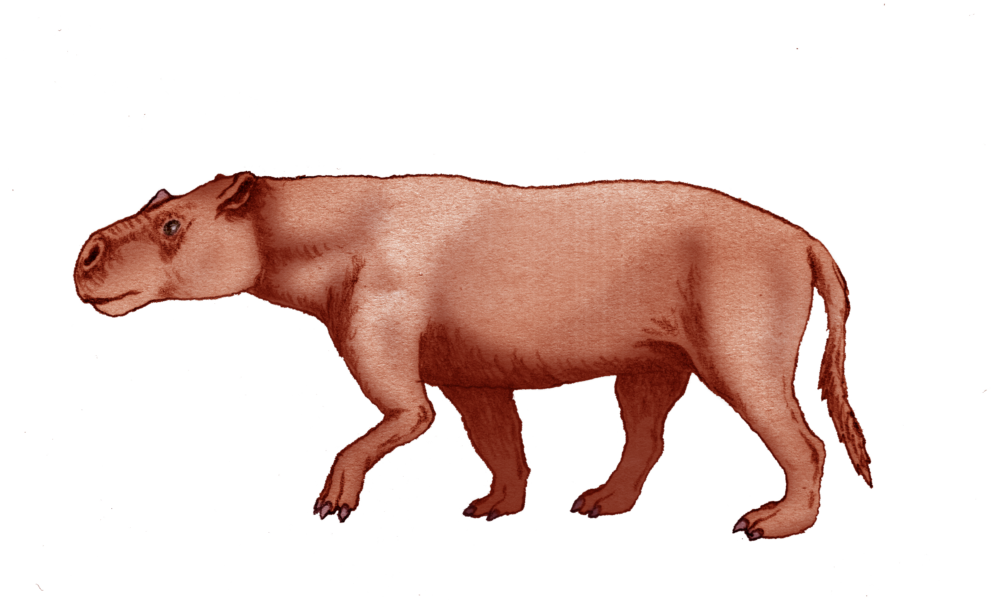 Restoration of Adinotherium ovinum, an extinct mammal